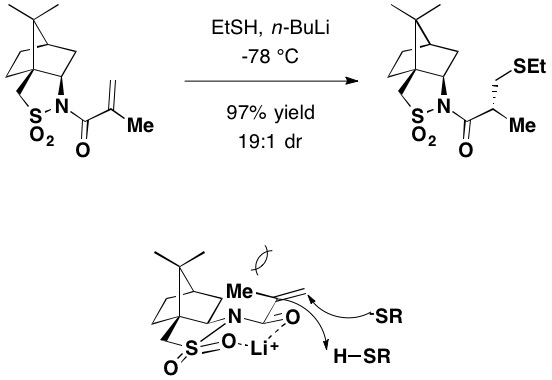 Lithium base promoted stereosclcctive Michael addition of thiols to N-mcthacryloylcamphorsultam produced the corresponding addition products in high diastereoselectivity.